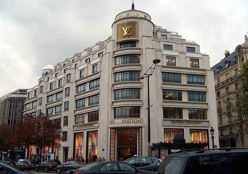 The Louis Vuitton flagship store on the Champs-Élysées in Paris.